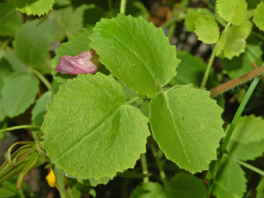 Ononis rotundifolia - Pragelato, Torino, Italy